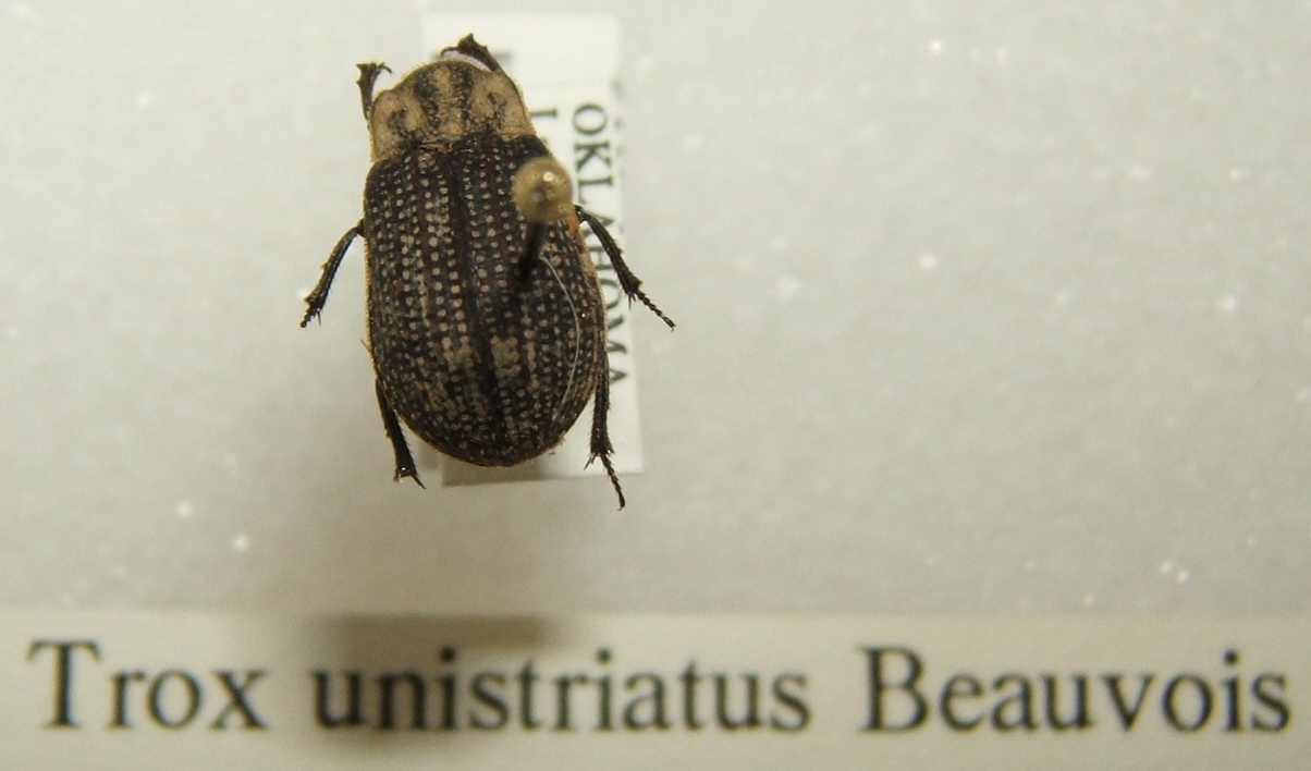 Trox unistriatus adult taken by Shawn Hanrahan at the Texas A&M University Insect Collection in College Station, Texas. Cropped version: Trox unistriatus sjh.cropped.jpg